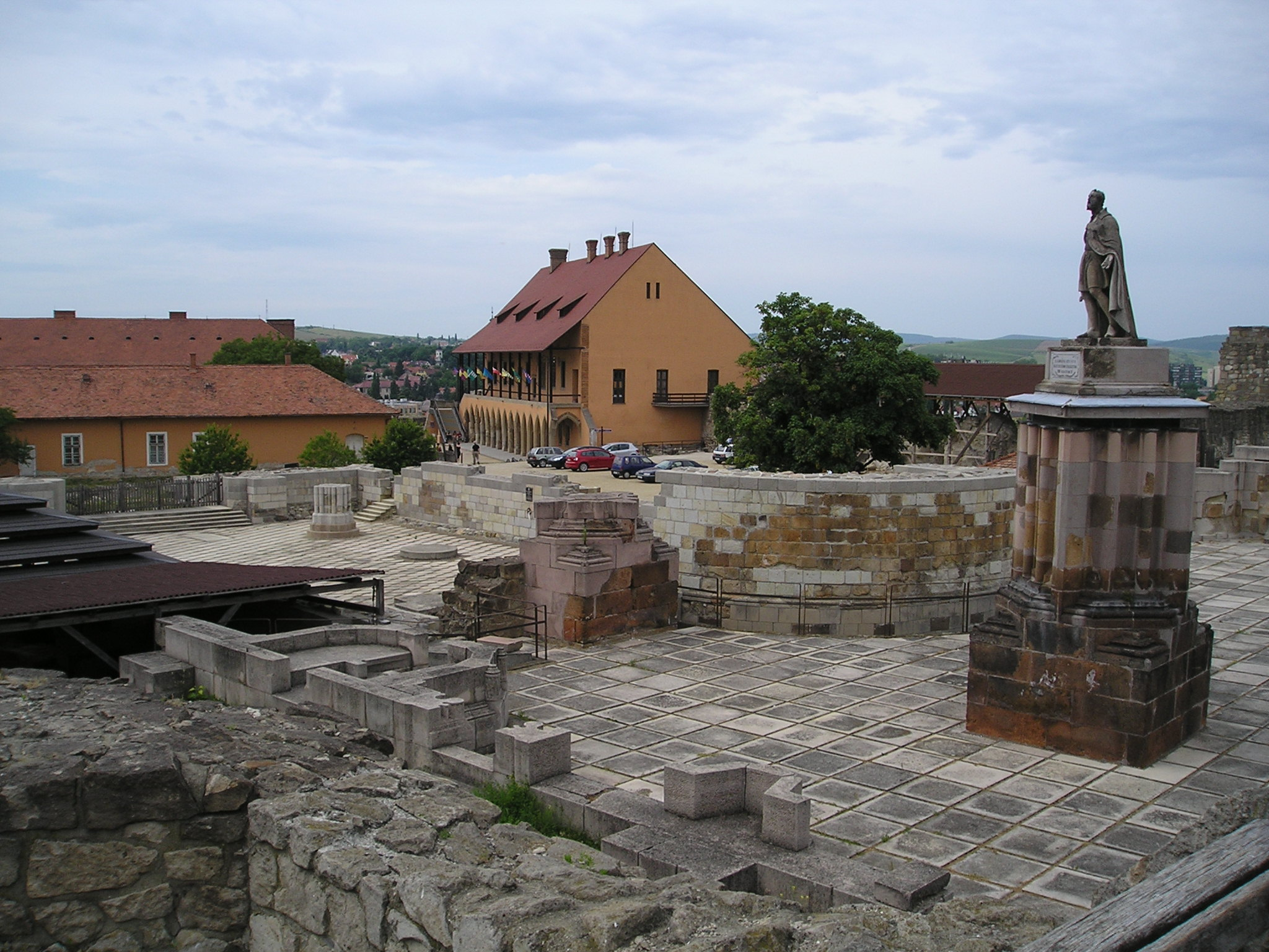 Eger, Hungary - ruins of the cathedral at the castle hill, monument to Géza Gárdony.